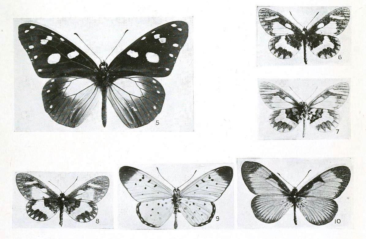 James John Joicey & George Talbot, 1921 New Lepidoptera Collected by Mr. T. A. Barns, in East Central Africa. New Forms of Rhopalocera Bull. Hill Mus. 1 (1) : 44-118 Plate 9 5 Amauria egialia similis male, synonym for Amauris albimaculata Butler, 1875 6 Acraea bettiana male, synonym for Acraea rangatana Eltringham, 1912 7 Acraea bettiana male underside 8 Acraea bettiana female 9 Acraea leucopyga latiapicalis male, synonym for Acraea caldarena Hewitson, 1877 10 Acraea disjuncta f. alciopides male, synonym for Acraea alciopoides Joicey & Talbot, 1921